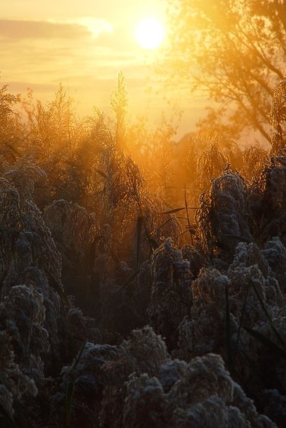 Nature, Shining